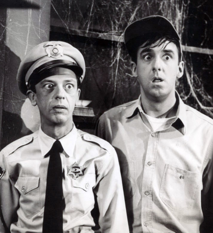 Publicity photo from the television program The Andy Griffith Show. Pictured are Don Knotts (Barney Fife) and Jim Nabors (Gomer Pyle).